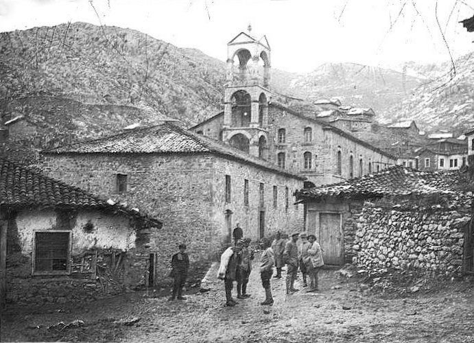 Picture of bulgarian church of St. George in Smyrdesh or Krystalopigi, Greece, during the WW1